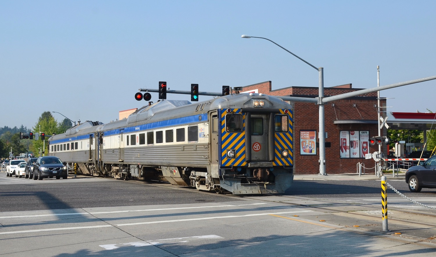 A two-car TriMet WES Commuter Rail train consisting of Budd Rail Diesel Cars (RDCs) 1702 and 1711, southbound on Lombard Avenue and crossing Canyon Road, in central Beaverton, Oregon. This location is on the very short section of the 15-mile WES line that was newly built for WES, is owned by TriMet (rather than Portland & Western Railroad), and is used only by WES, not also by freight trains. Cars 1702 and 1711 are ex-Alaska Railroad Nos. 702 and 711, acquired secondhand by TriMet in 2009, and built in 1953 and 1952, respectively (and refurbished by TriMet before use). They were originally Nos. 129 and 121 of the New York, New Haven and Hartford Railroad (commonly known as New Haven).